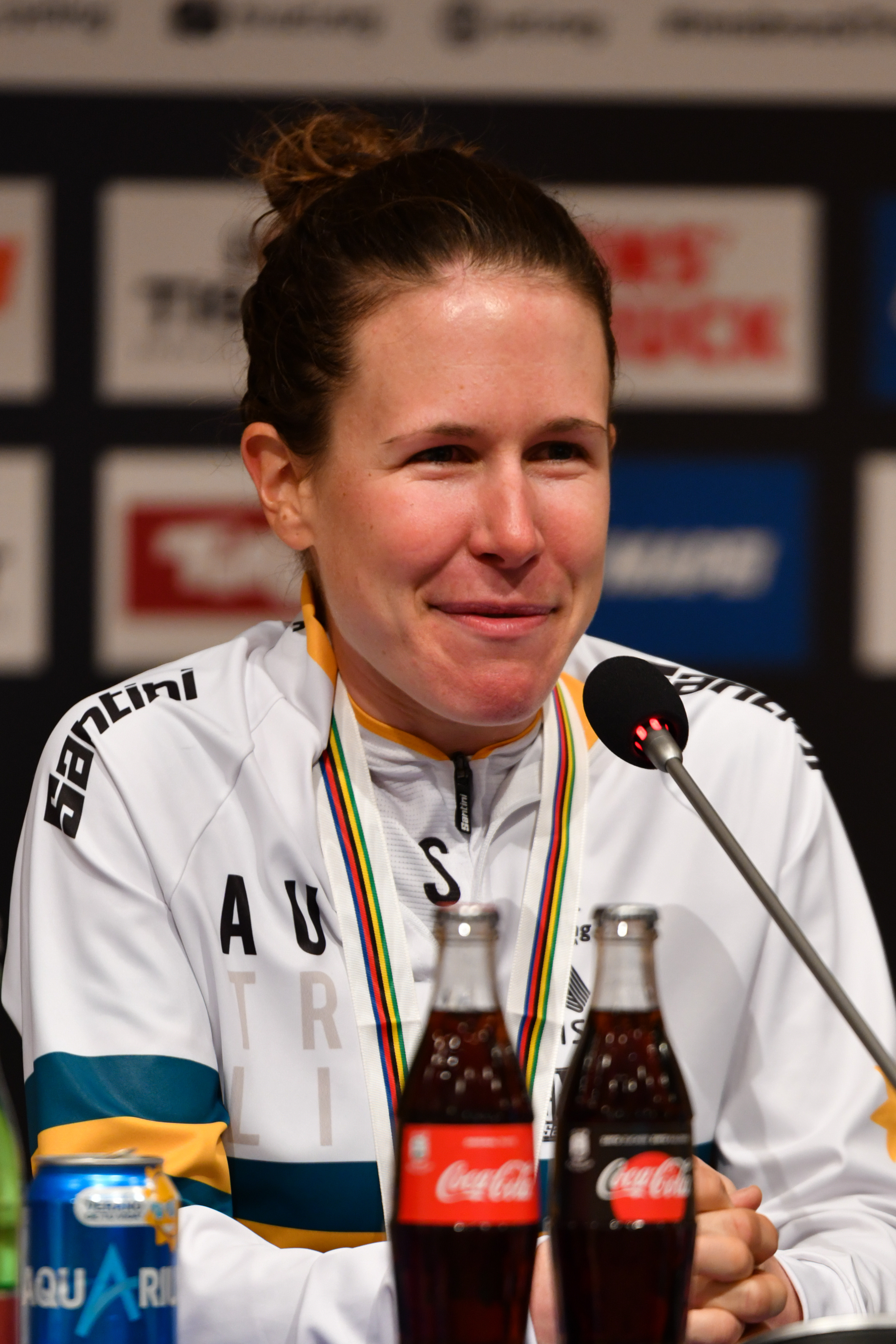 2018 UCI Road World Championships Innsbruck/Tirol Women Elite Road Race. Picture shows: Press conference, Amanda Spratt of Australia